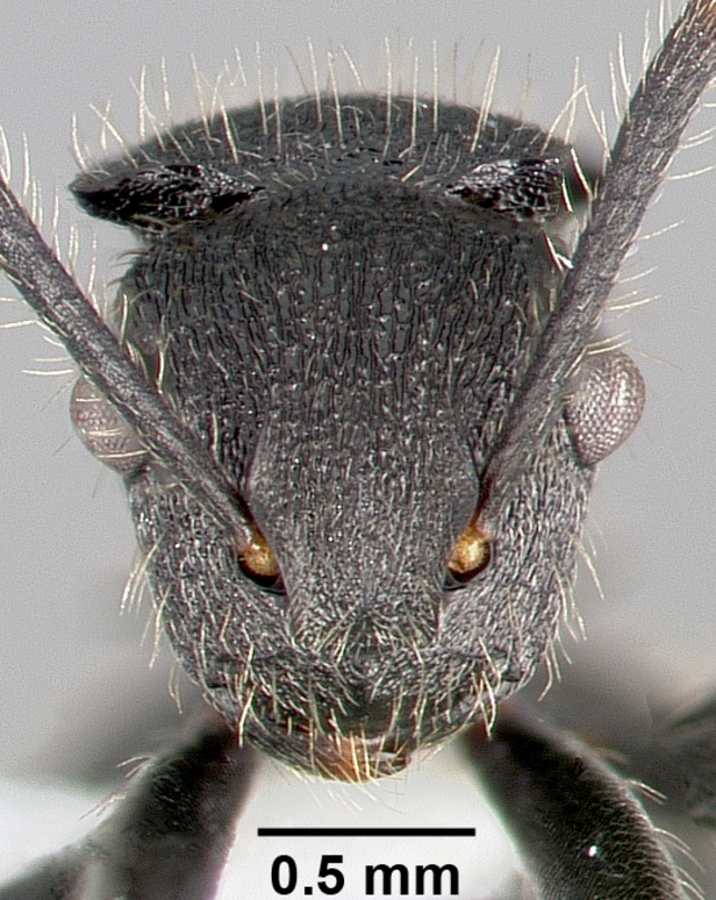 Head view of ant Polyrhachis asomaningi specimen casent0415705.